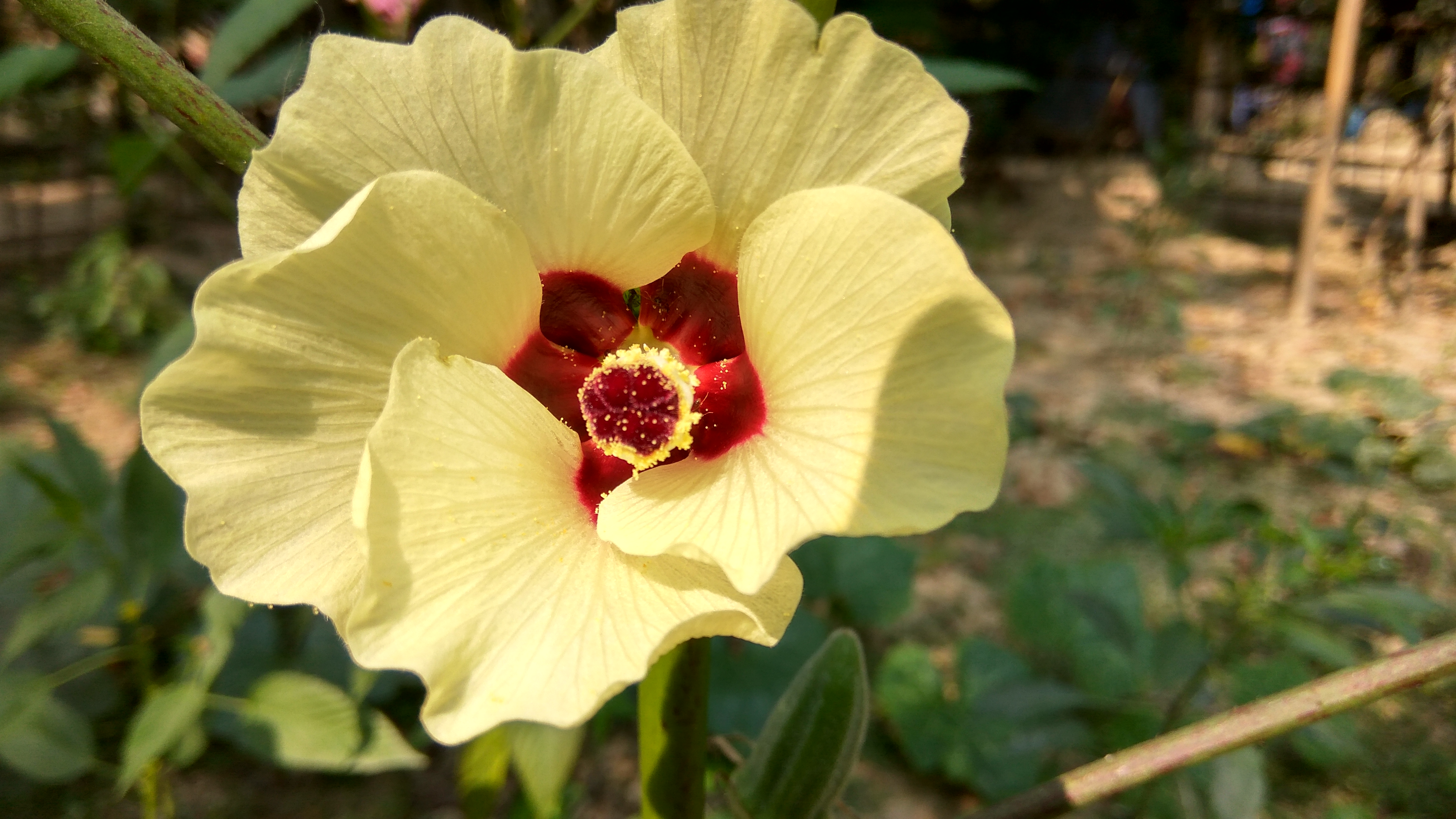 Okra fruit & flower